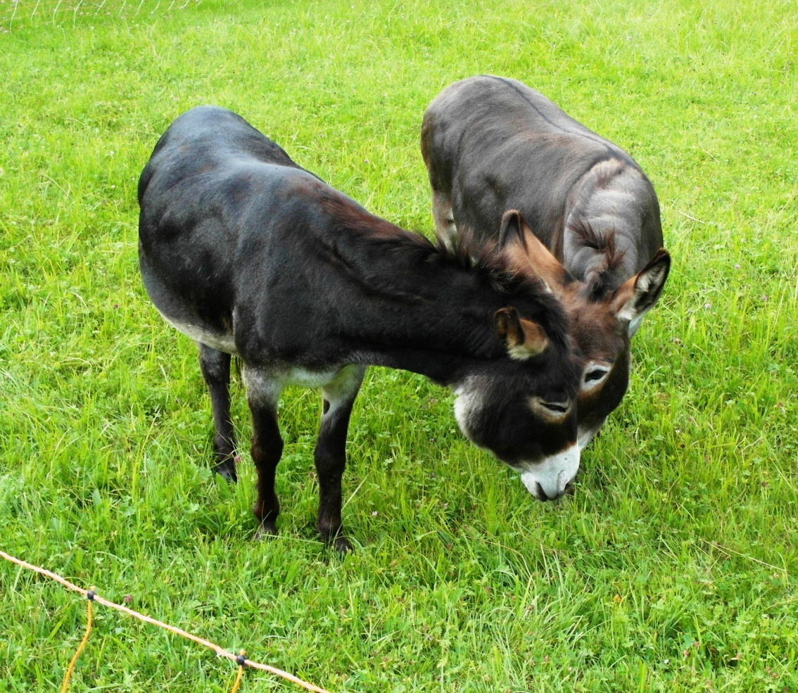 Two "smooching" donkeys on a pasture near Ettal, Germany